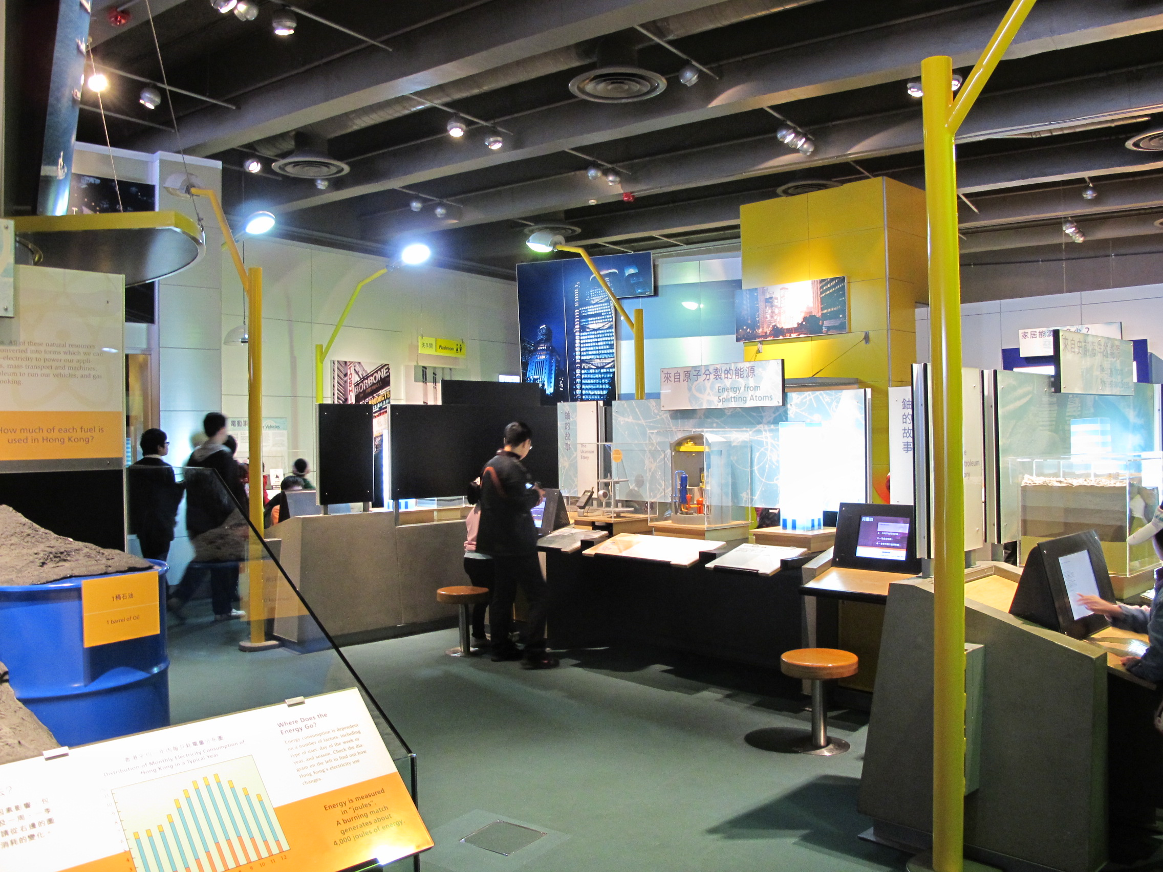 Hong Kong Science Museum Energy Efficiency Centre